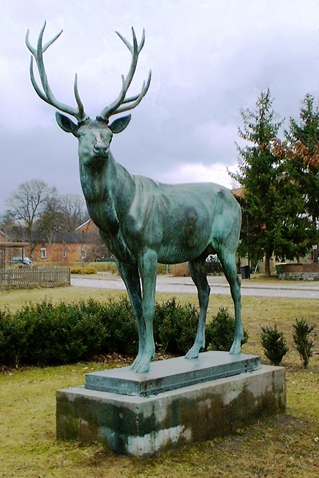 Deer statue by Louis Tuaillon in Hirschfelde, Brandenburg, Germany